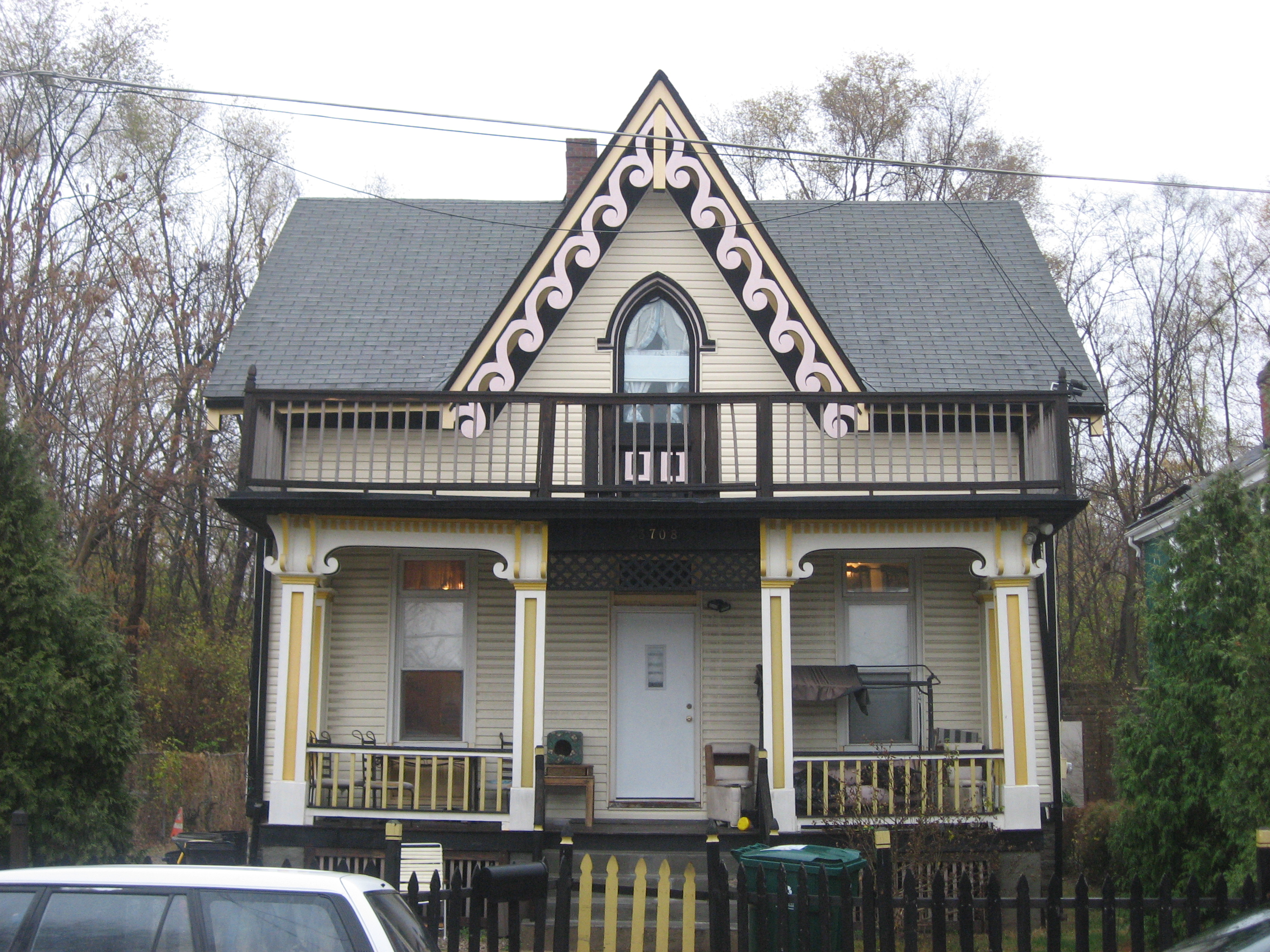 Front of the Houston House, located at 3708 Mead Avenue in the Columbia-Tusculum neighborhood of Cincinnati, Ohio, United States. Built in 1900, it is listed on the National Register of Historic Places.